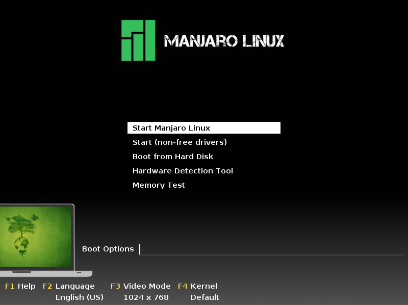 net-image boot of Manjaro 0.8.4